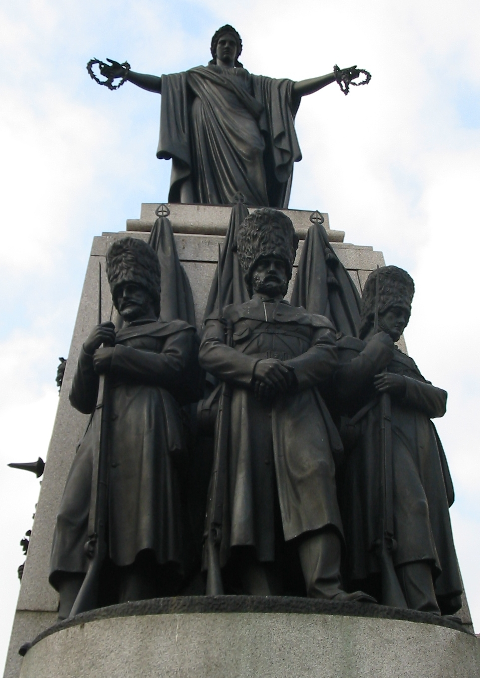 London